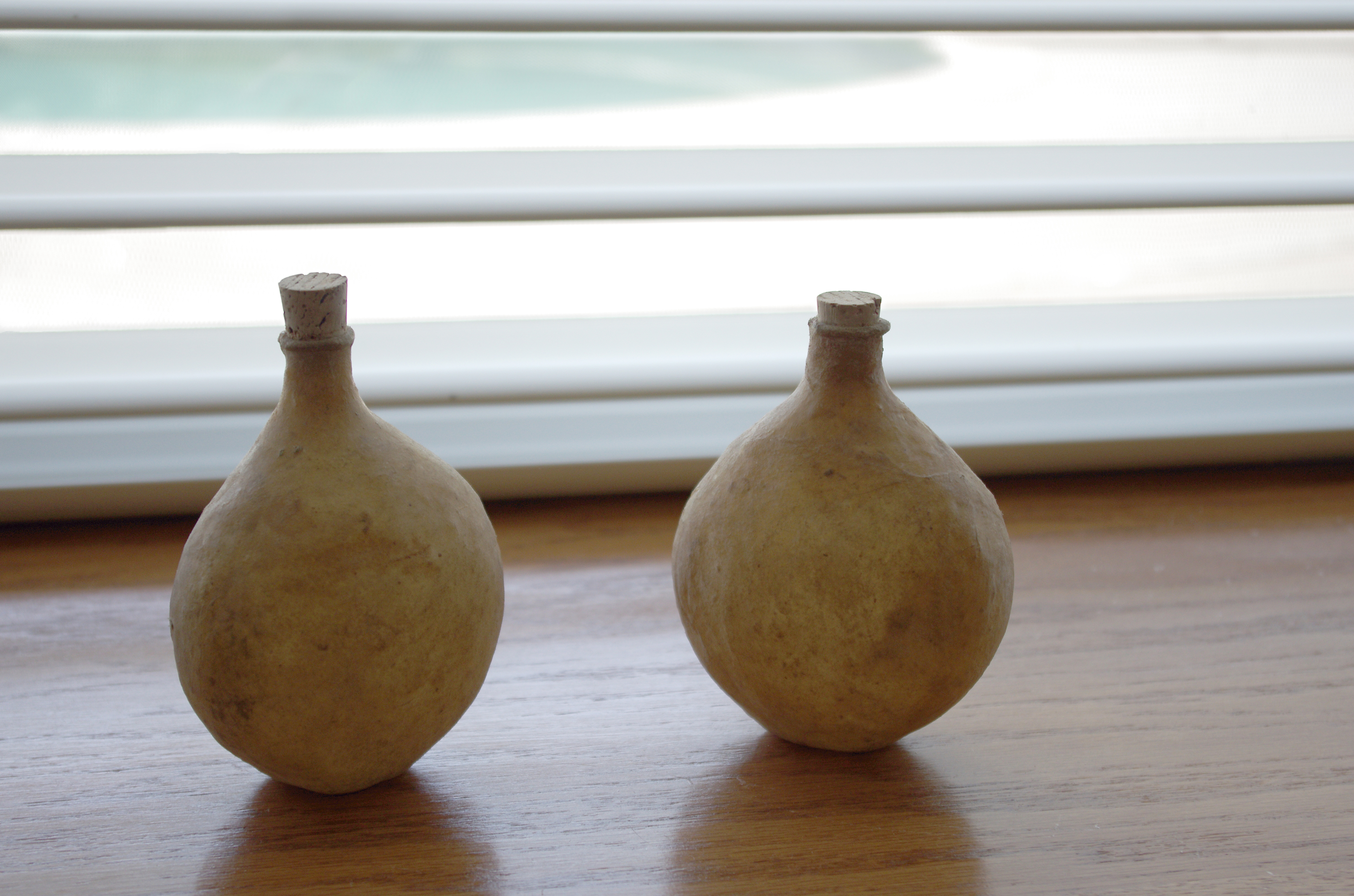 Camel skin Perfume Bottles from Kannauj. The bottles are for aging the perfume (the skin breathes, allowing the water to evaporate while holding in the fragrance and oil, becoming a perfume, or attar.)